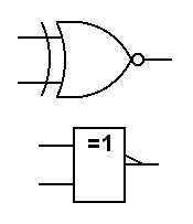 Symbols for a XNOR gate with two inputs: American (top) and IEC (bottom).